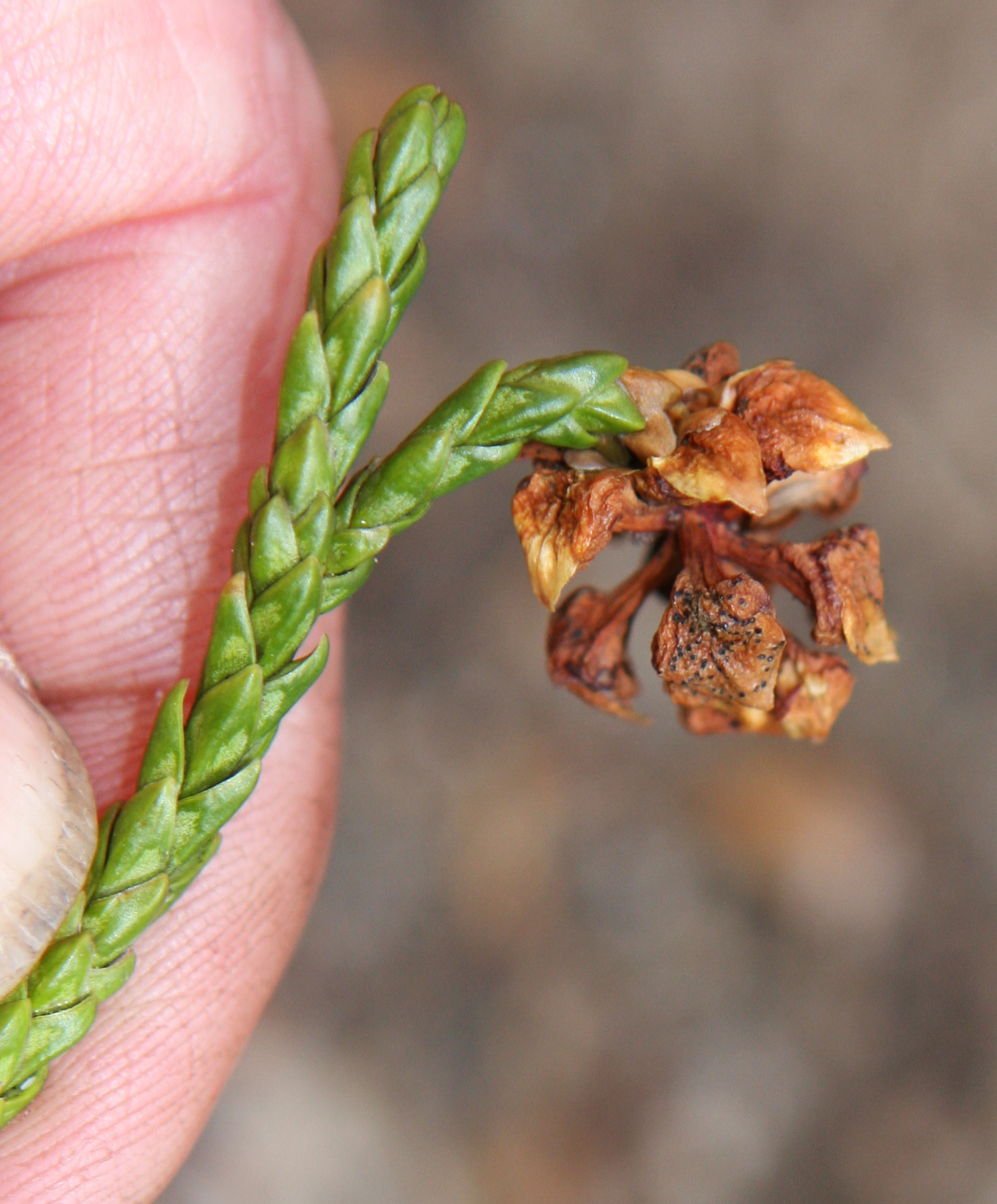 Athrotaxis × laxifolia cone. Meander Valley, Tasmania